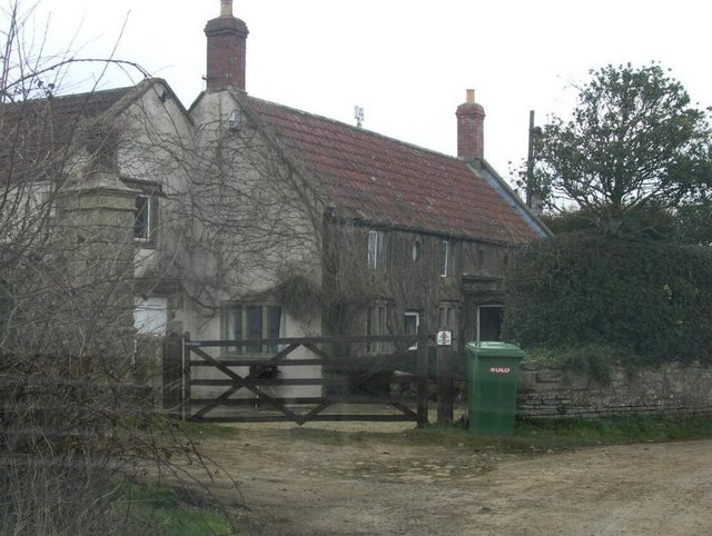 Charity Lane, White Cottage (also known as Charity Cottage Odd name, to the left is one of the C18 gate piers that flank one of the driveways to Babington Court.